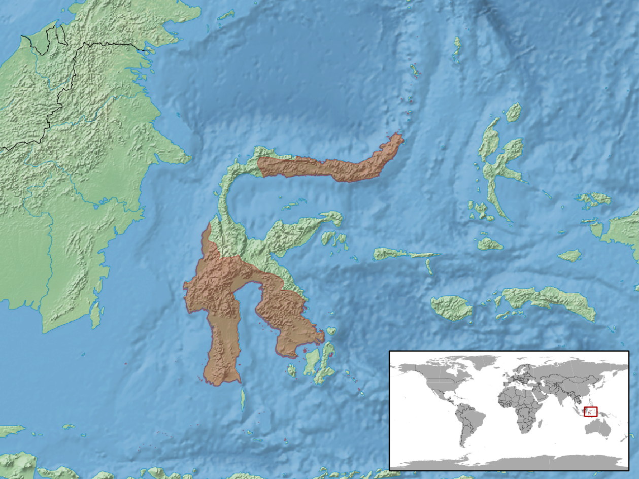 geographic distribution of Lipinia infralineolata